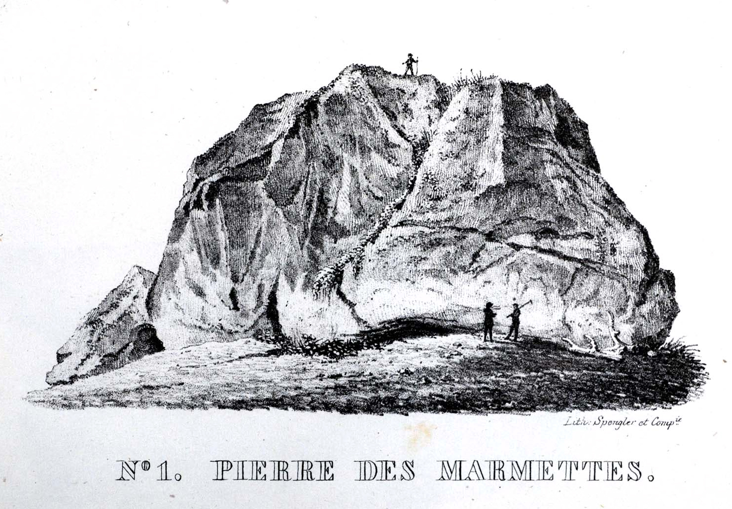 Pierre_des_Marmettes by Jean de Charpentier, 1841, Essai sur les glaciers et sur le terrain erratique du bassin du Rhône